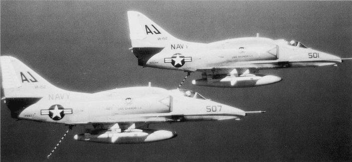 Two U.S. Navy Douglas A-4E Skyhawk (BuNo 149977, 150044) of Attack Squadron VA-152 "Mavericks" during a mission over Vietnam. VA-152 was assigned to Carrier Air Wing 8 (CVW-8) aboard the aircraft carrier USS Shangri-La (CVS-38) for a deployment to Vietnam from 5 March to 17 December 1970. The Skyhawks are armed with AGM-45 Shrike anti-radiation missiles.